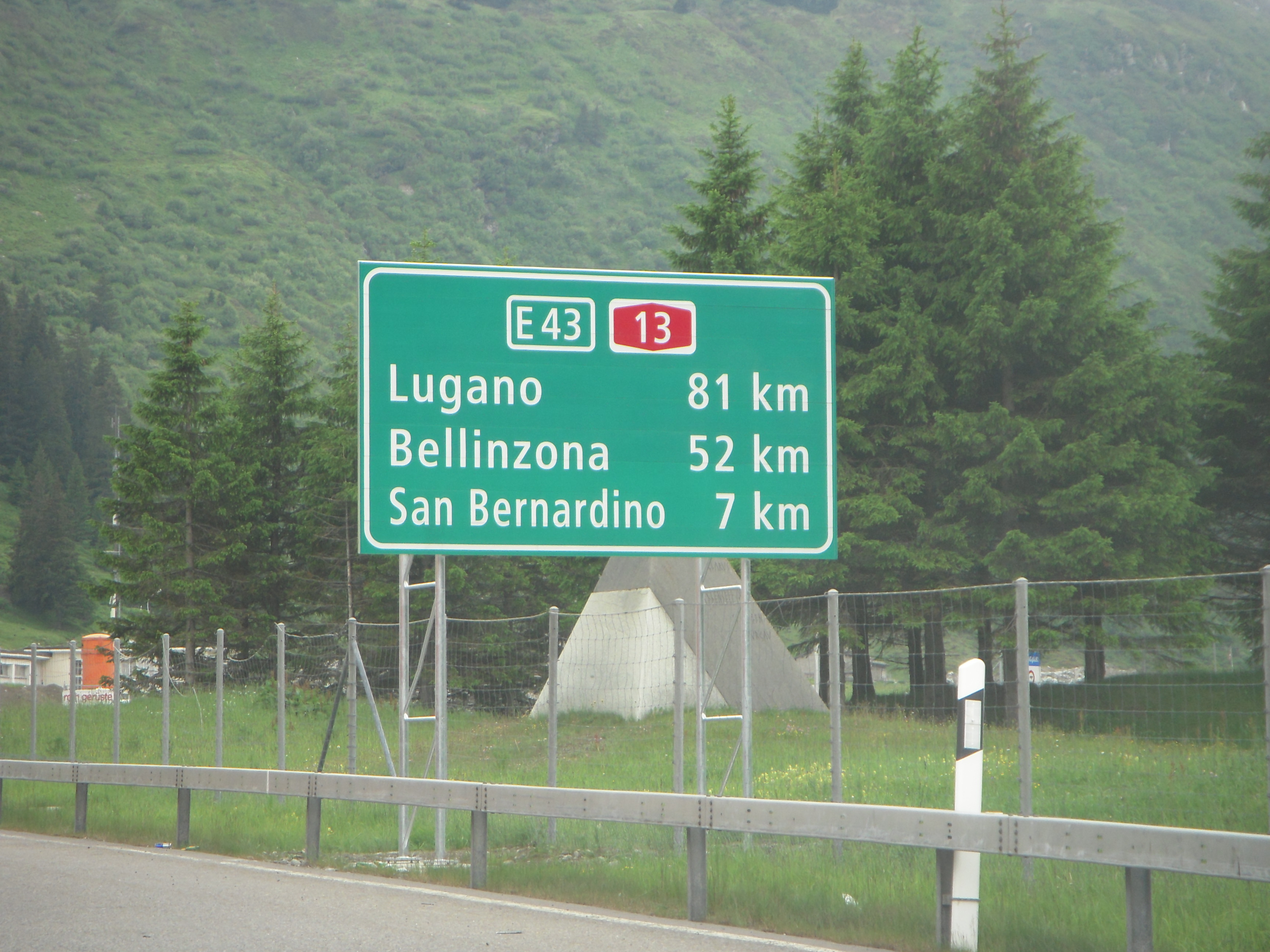 Highway sign in Graubunden, Swizerland, Highway E43 short befor San Bernardino tunnel at Hinterrhein. June 24, 2009.